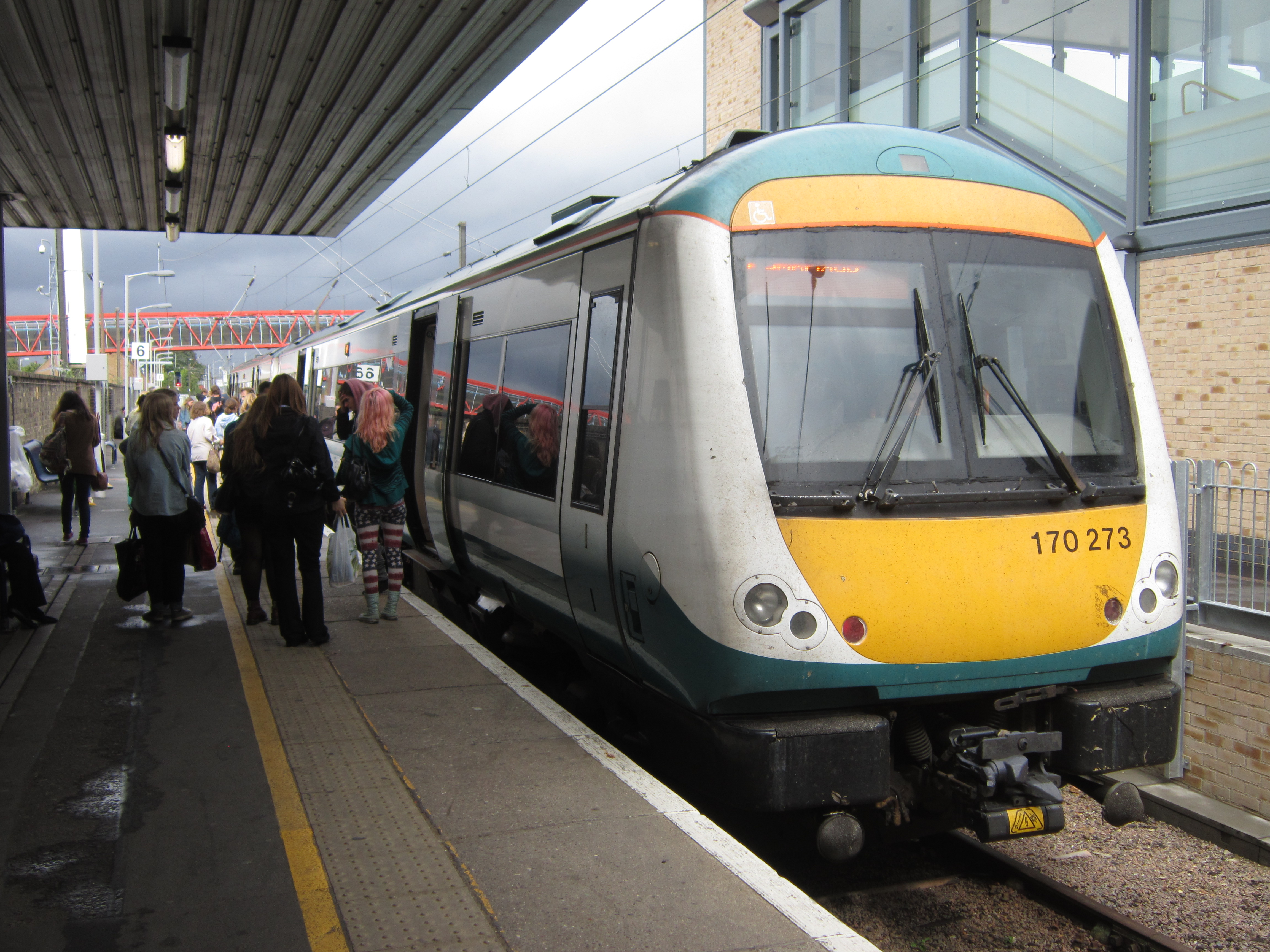 British Rail Class 170 no. 170273, Greater Anglia service at Cambridge railway station